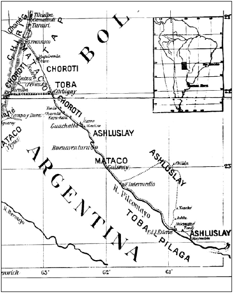 Distribution of indigenous tribes in the border regions between Bolivia and Argentina in 1910s